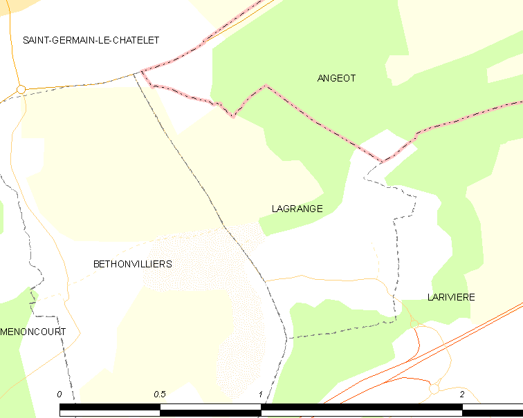 Map of French municipality Lagrange